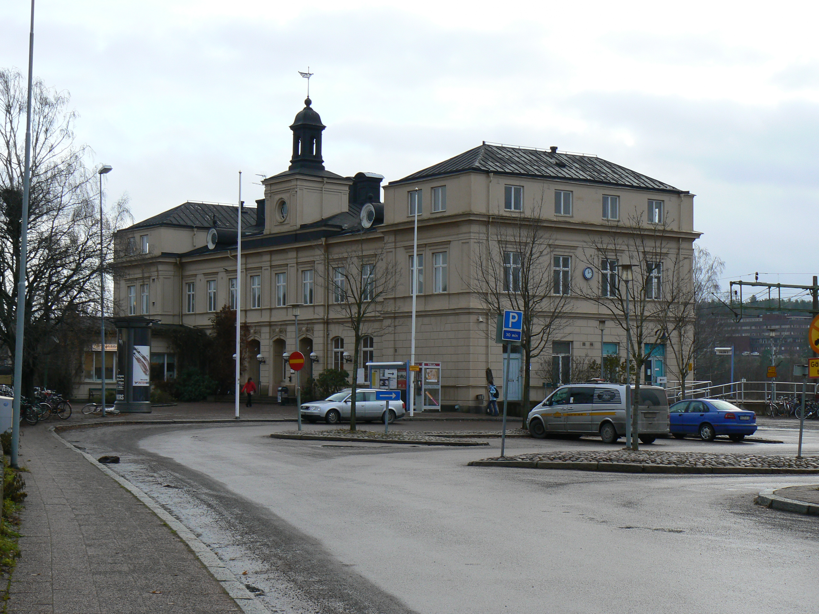 Falun C. The railway station in Falun, Sweden. Photo by Skvattram 2006-11-24.